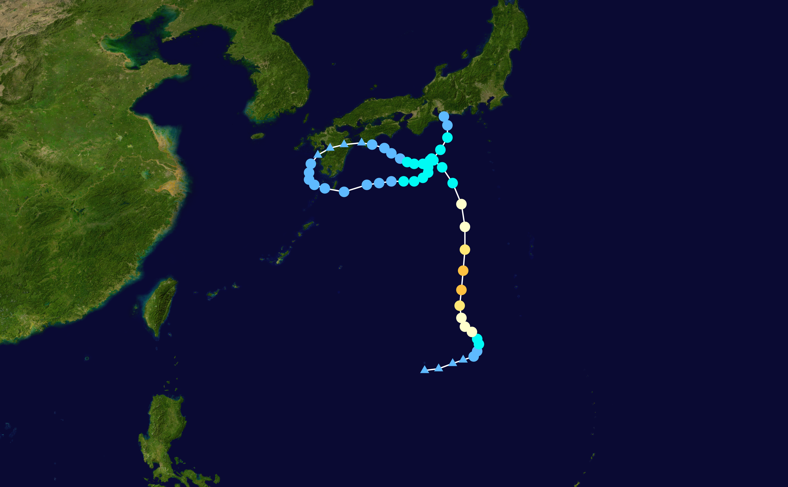 Track map of Typhoon Ellen of the 1973 Pacific typhoon season. The points show the location of the storm at 6-hour intervals. The colour represents the storm's maximum sustained wind speeds as classified in the Saffir–Simpson scale (see below), and the shape of the data points represent the nature of the storm, according to the legend below. Saffir–Simpson scale Tropical depression≤38 mph≤62 km/h Category 3111–129 mph178–208 km/h Tropical storm39–73 mph63–118 km/h Category 4130–156 mph209–251 km/h Category 174–95 mph119–153 km/h Category 5≥157 mph≥252 km/h Category 296–110 mph154–177 km/h Unknown Storm typeTropical cycloneSubtropical cycloneExtratropical cyclone / Remnant low / Tropical disturbance